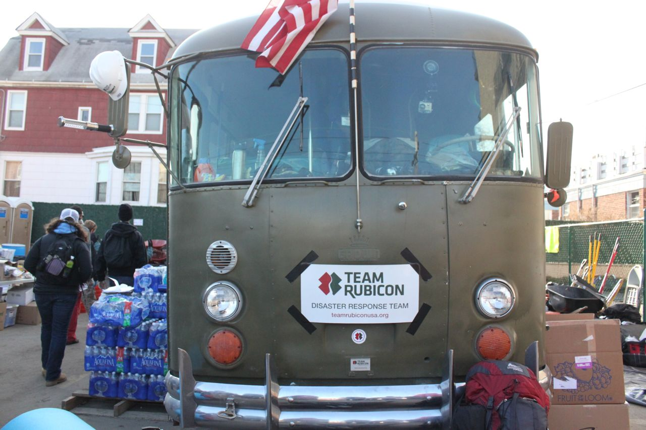 Team Rubicon in the Rockaways Nov 12, 2012